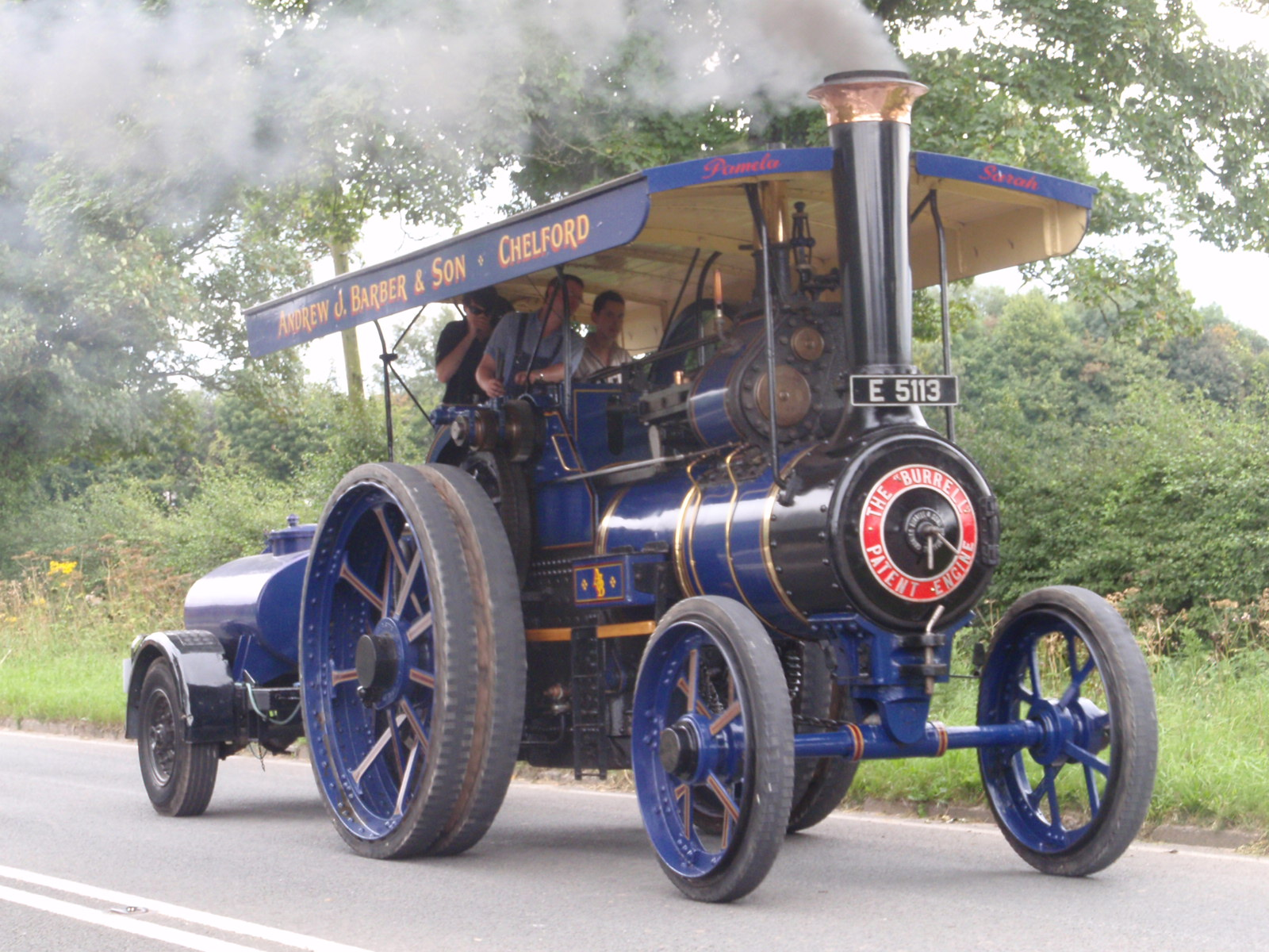 Steam traction engine near Jodrell Bank, Cheshire, England addded Note: Burrell no. 5336 of 1900 - reg no. E5113